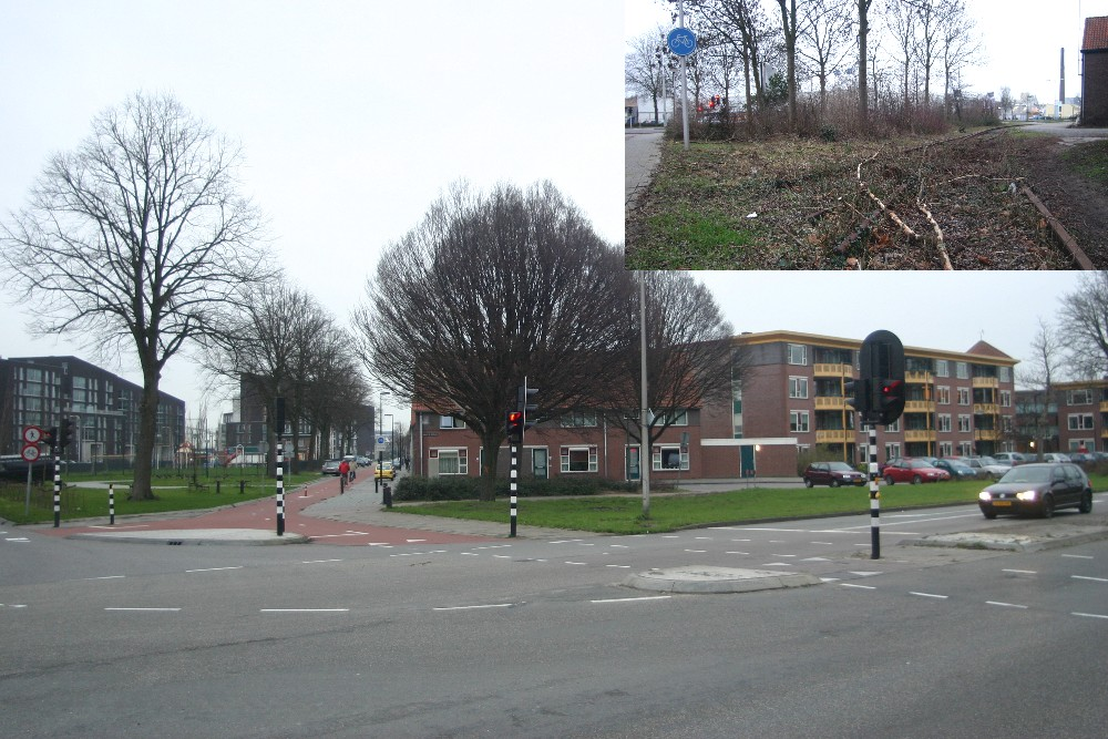 Open space in Deventer, which couldn't be built on because of the wide turning radius of a former railway line. The insert shows a similar line with the lines still present.